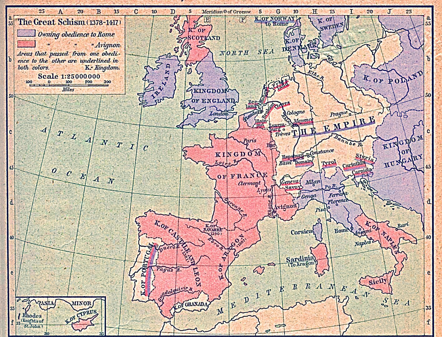 Map of the Great Schism (Rome Catholicism), allegiances to Rome and Avignon popes respectively